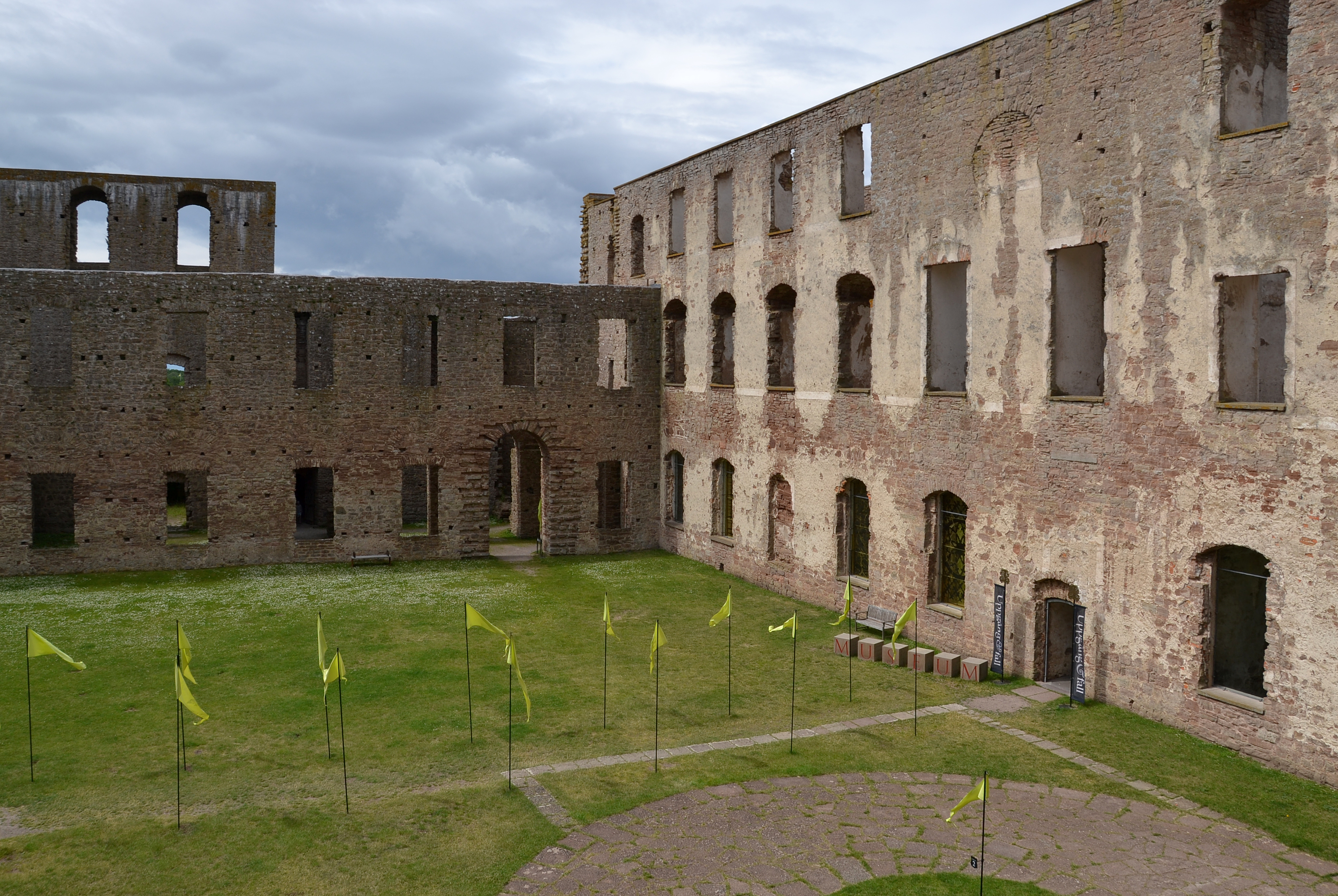 Borgholm castle, Sweden